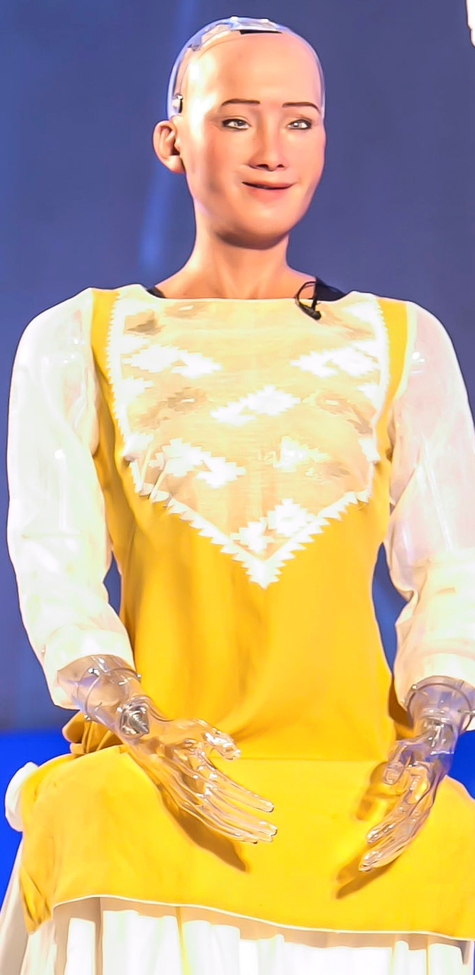 Sophia at Digital World 2017 conference, Dhaka, Bangladesh in December 2017